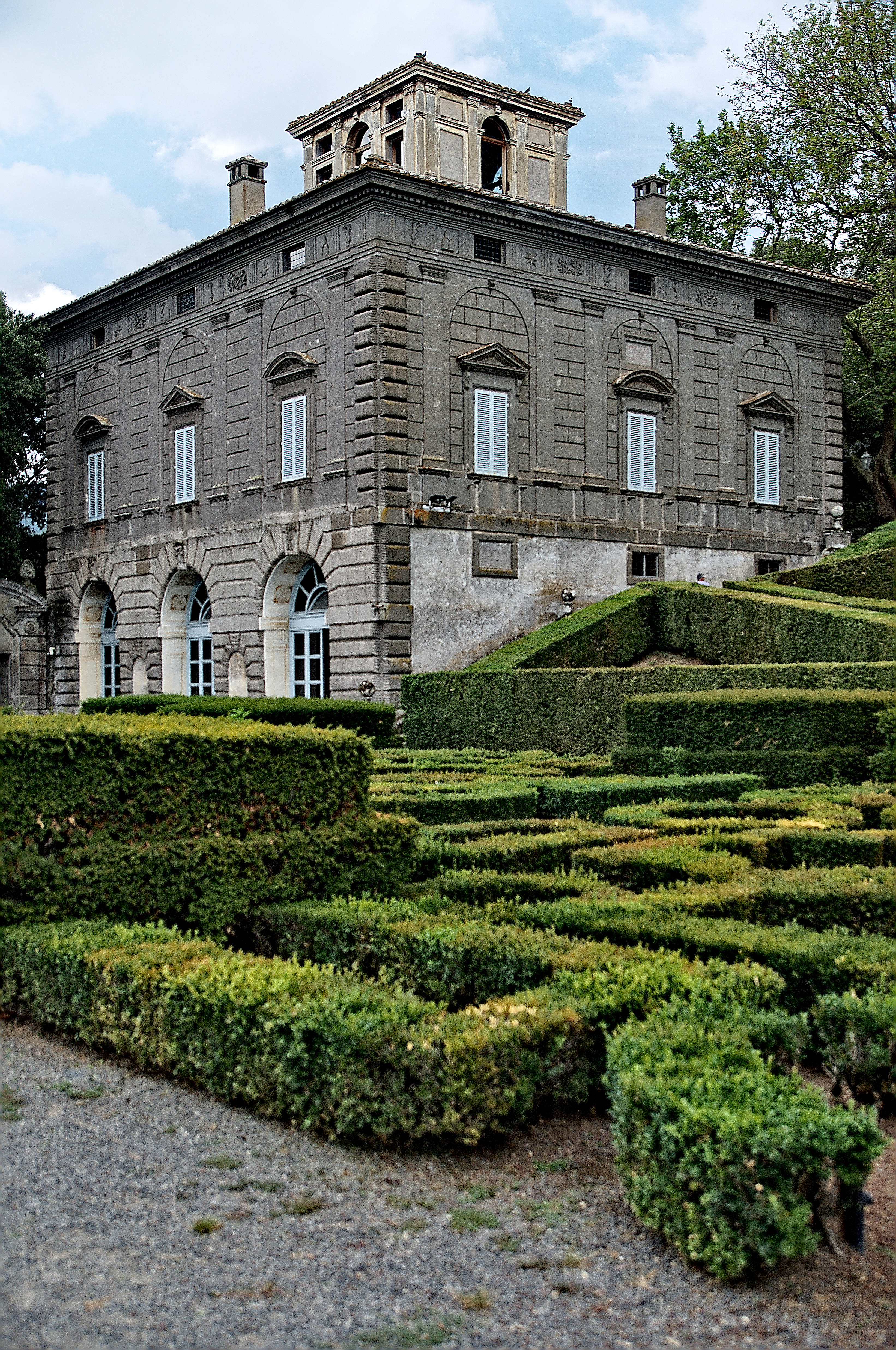 [Villa Lante (Bagnaia)] , Viterbo VT, Italy Villa Lante (Bagnaia), siepi di bosso, fontane, giardini sculture, Rinascimento, architettura, pittura prospettiva, voliera photo Paolo Villa VR 2016 copyright